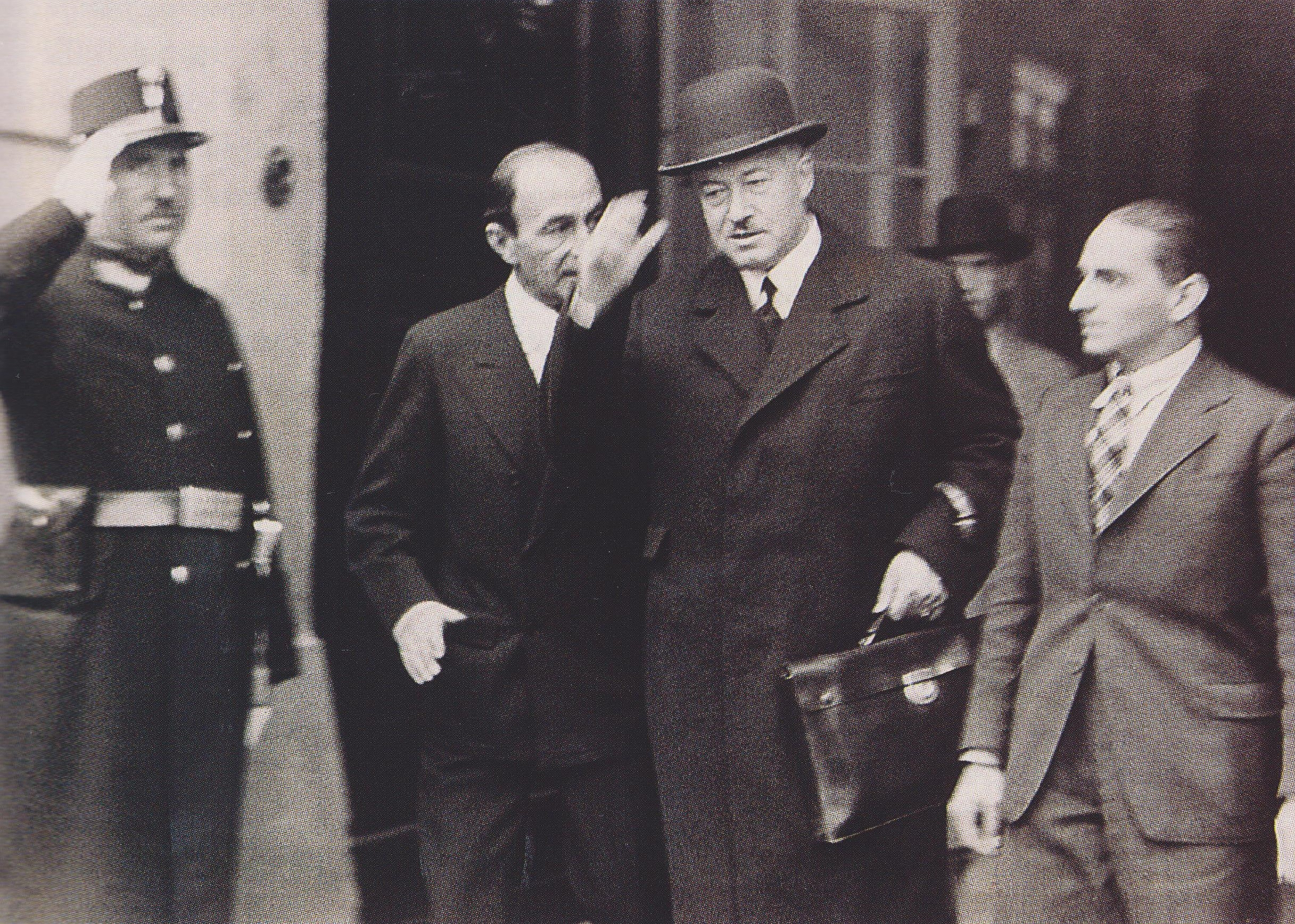 Kálmán Darányi left residence in Buda after resignation from premiership.